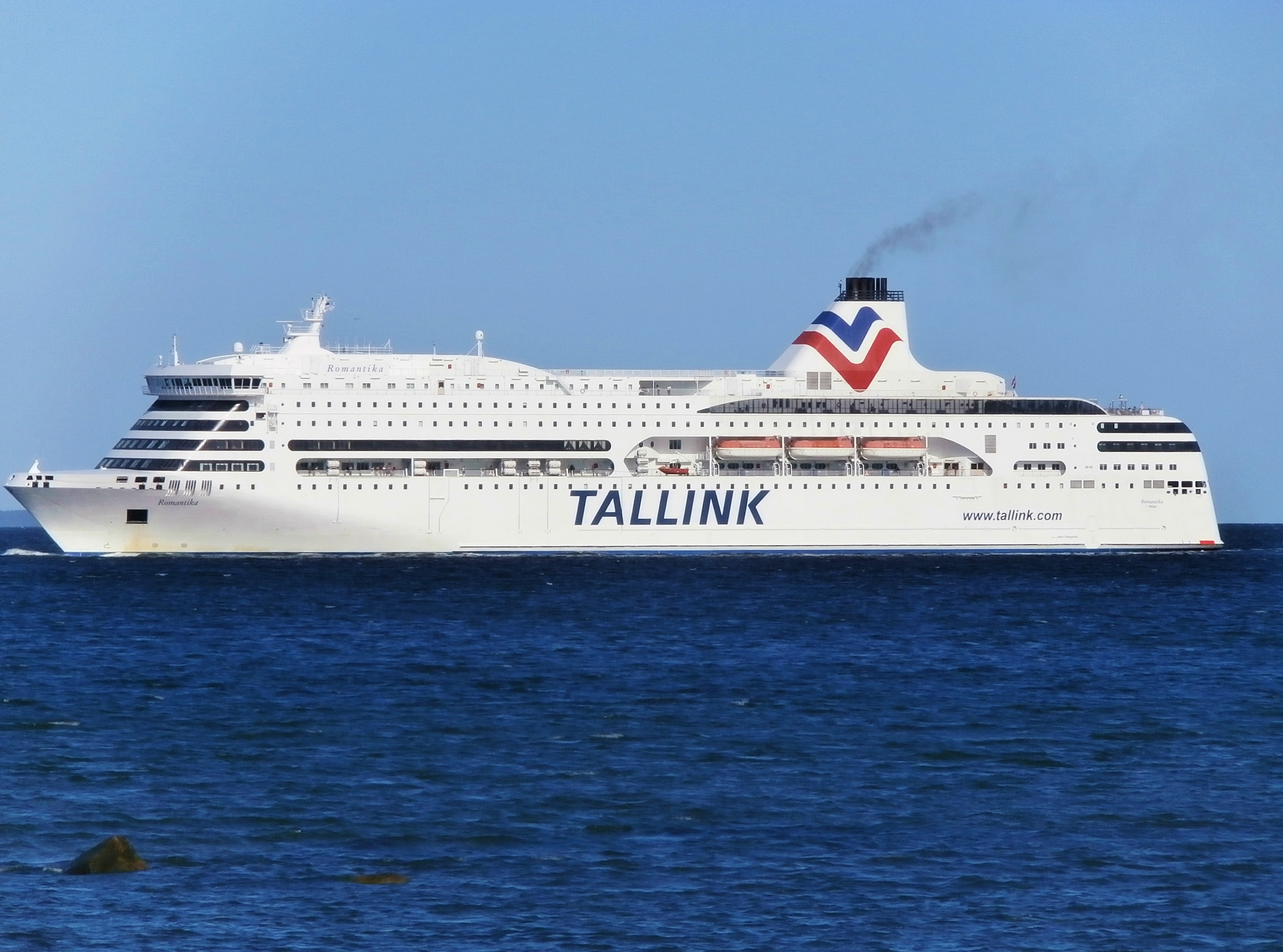 Romantika arriving in Tallinn 12 August 2014